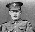 James Bradbeer during World War I, as a member of the Sportsmen's Battalion.